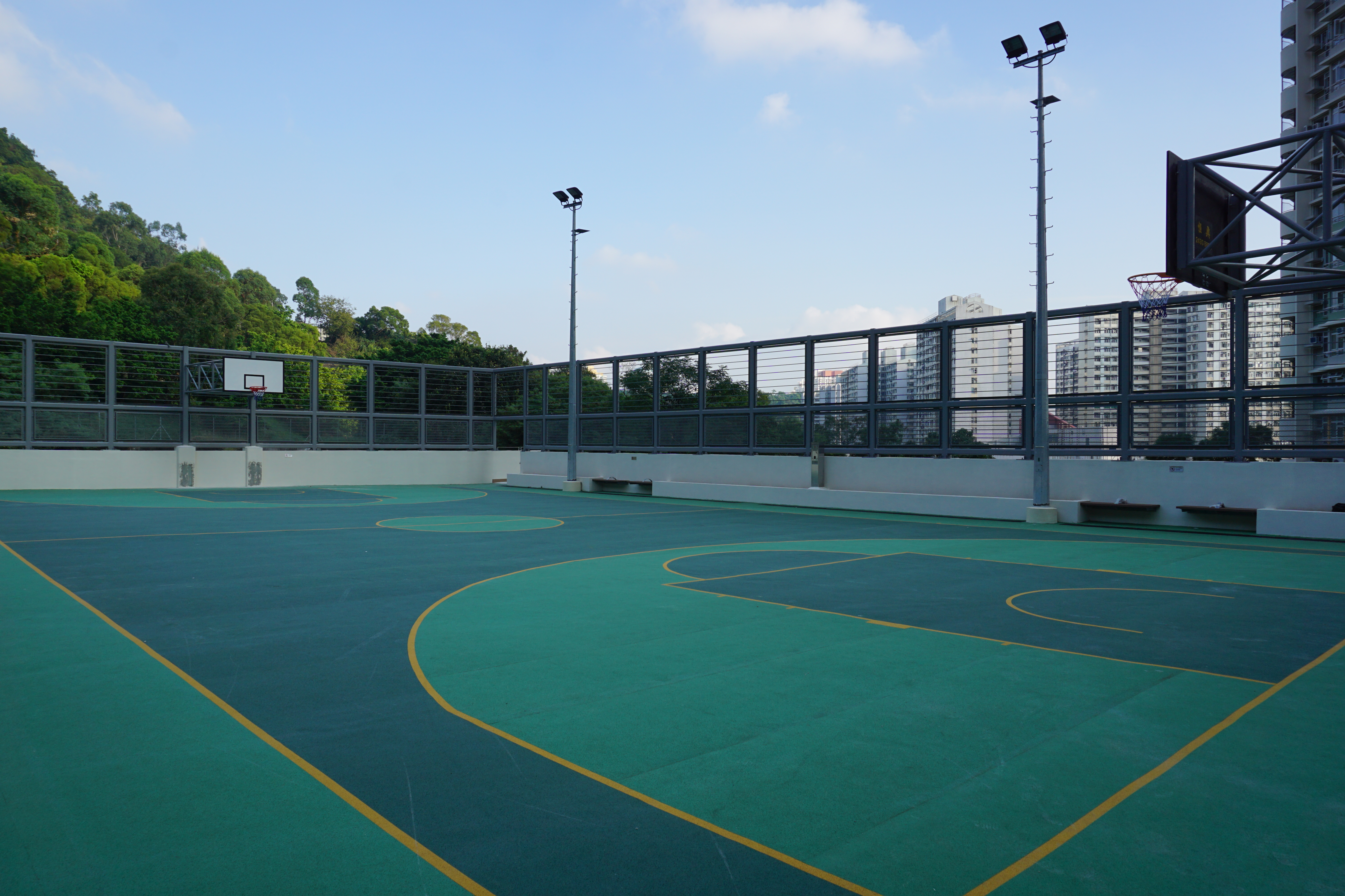 So Uk Estate in Cheung Sha Wan, Hong Kong.